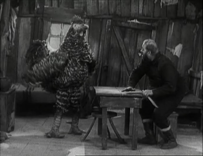 Scene from the movie The Gold Rush. 1925.